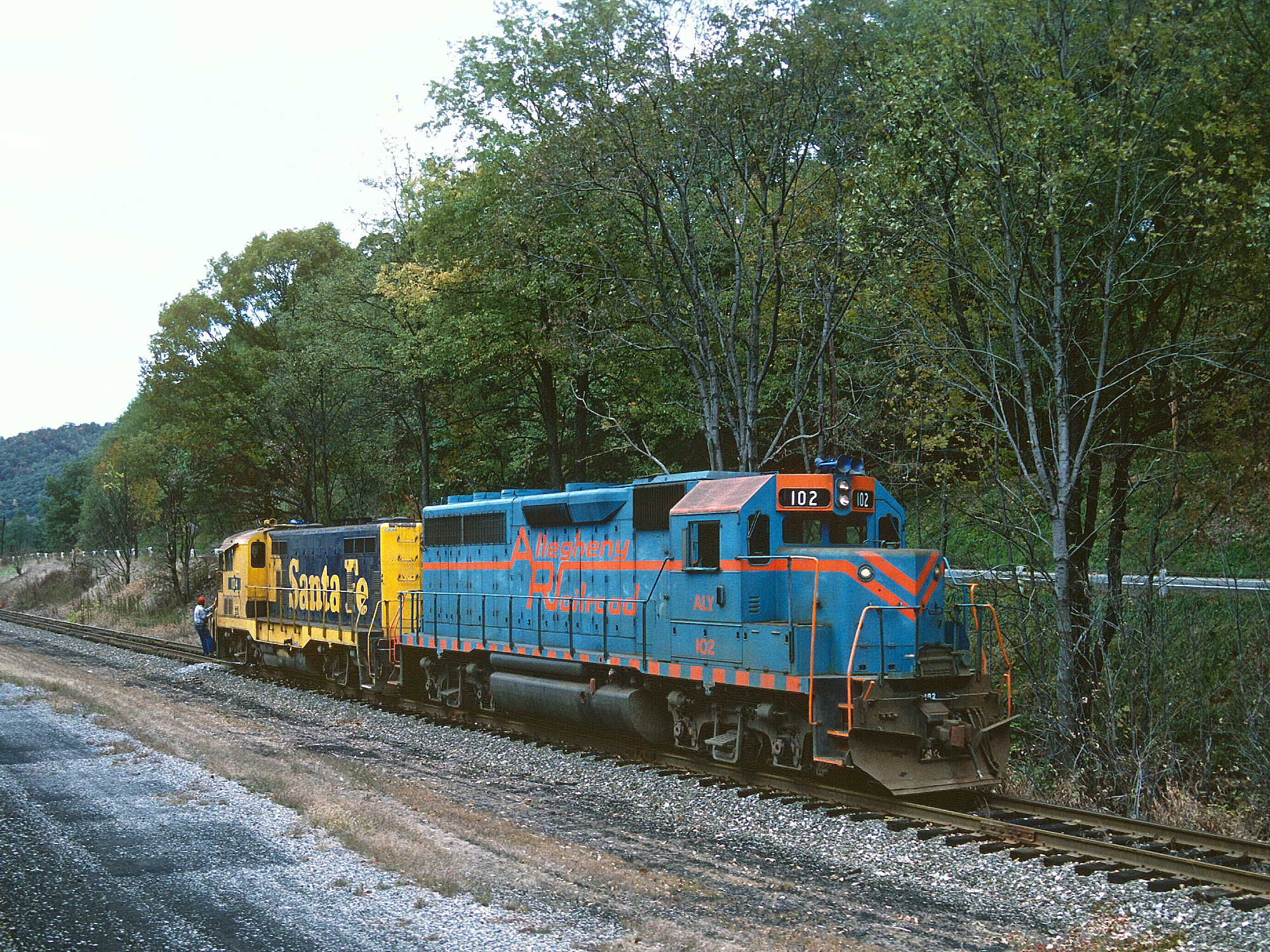 A Roger Puta photograph